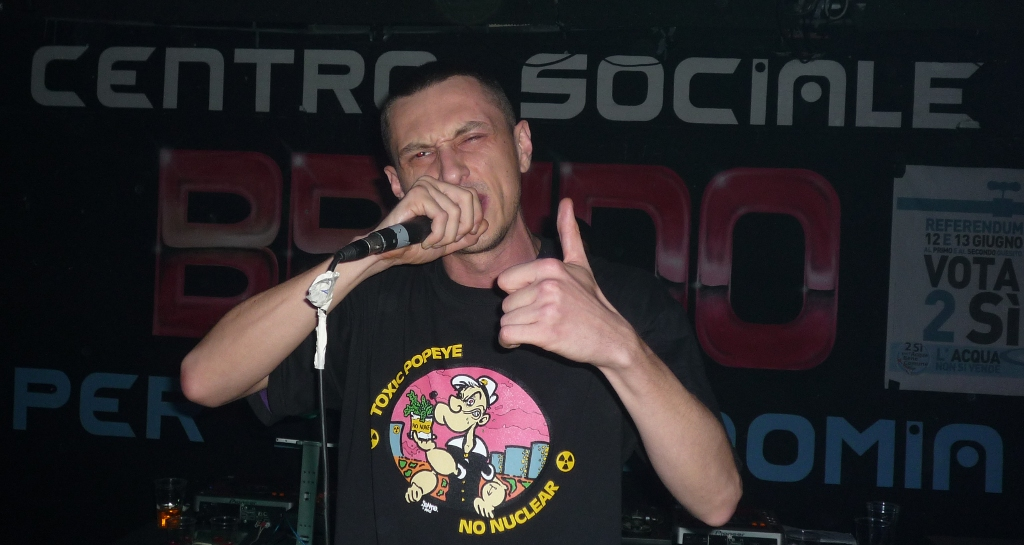 InokiNess at Centro Sociale Bruno in Trento